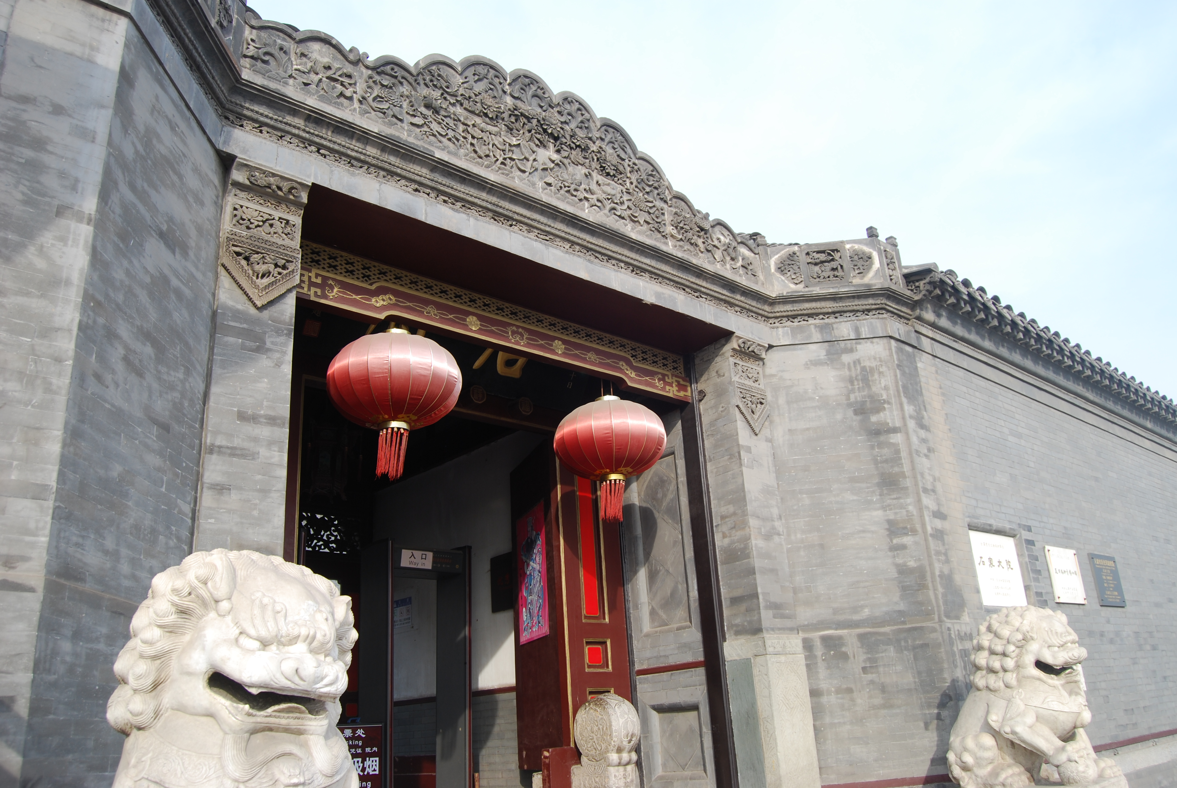 Courtyard of Shi's Family in Xiqing District, Tianjin